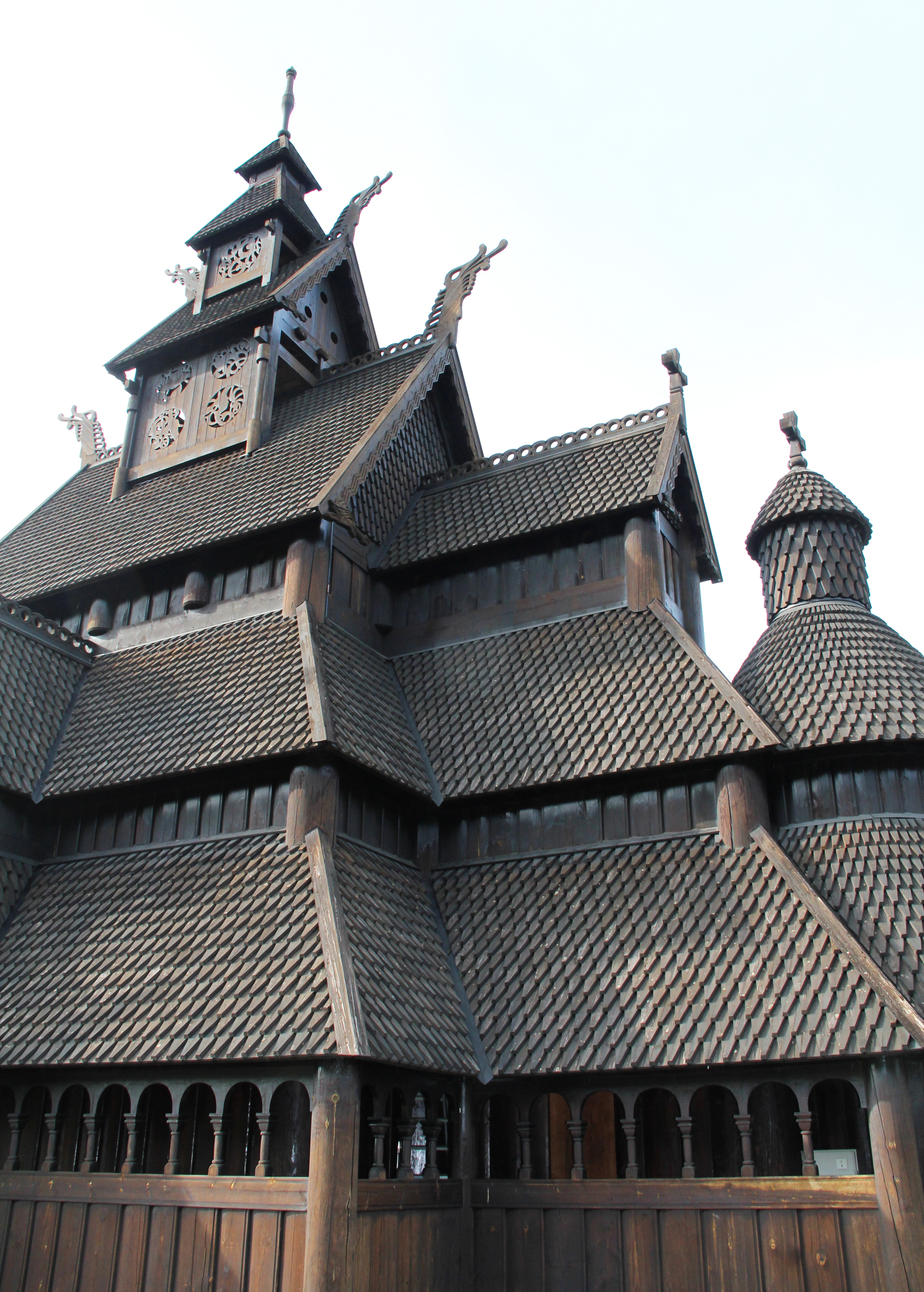 Gol stavechurch, the replica at Gol. Detail from wall.